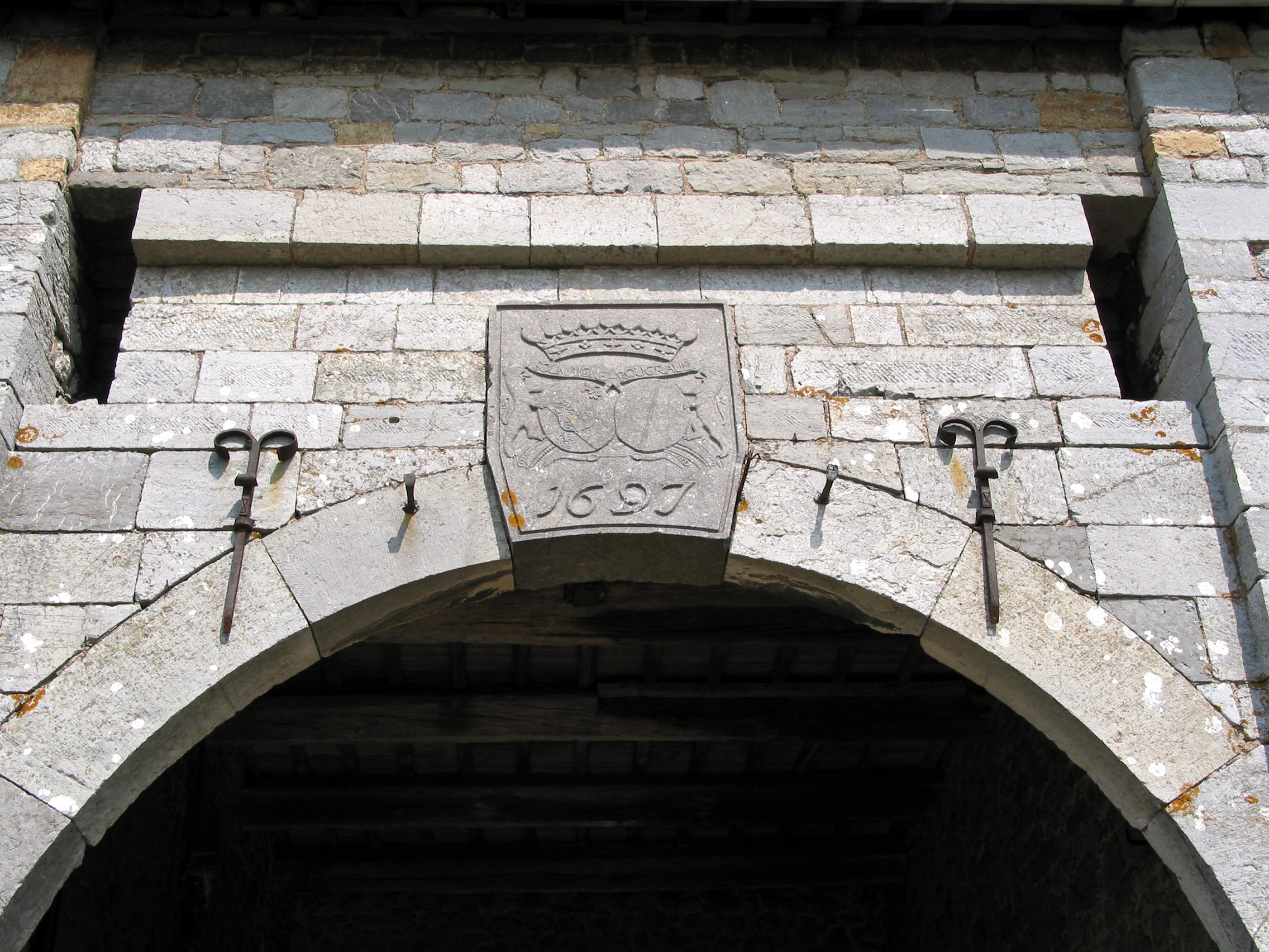 Nandrin (Belgium), keystone with arms of the old fortified farm entry porch. Walon: Nandrin (Bèljike), clè d’vousse gârnie d'on blason do poitche dol vî foite cince.